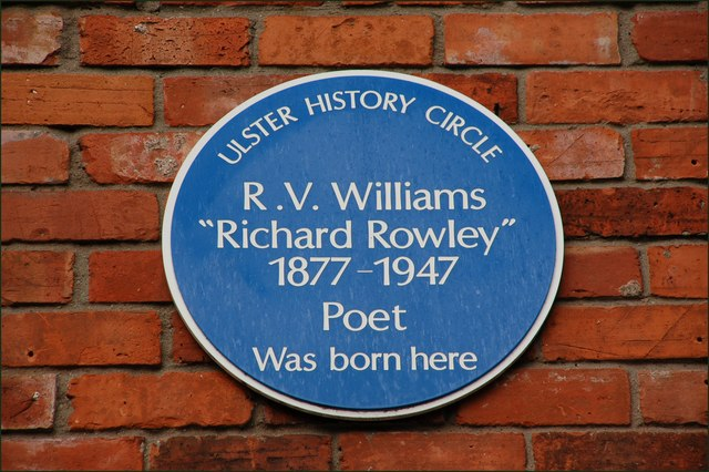 Plaque, Dublin Road, Belfast This plaque, on no 79 Dublin Road, commemorates the poet R V Williams